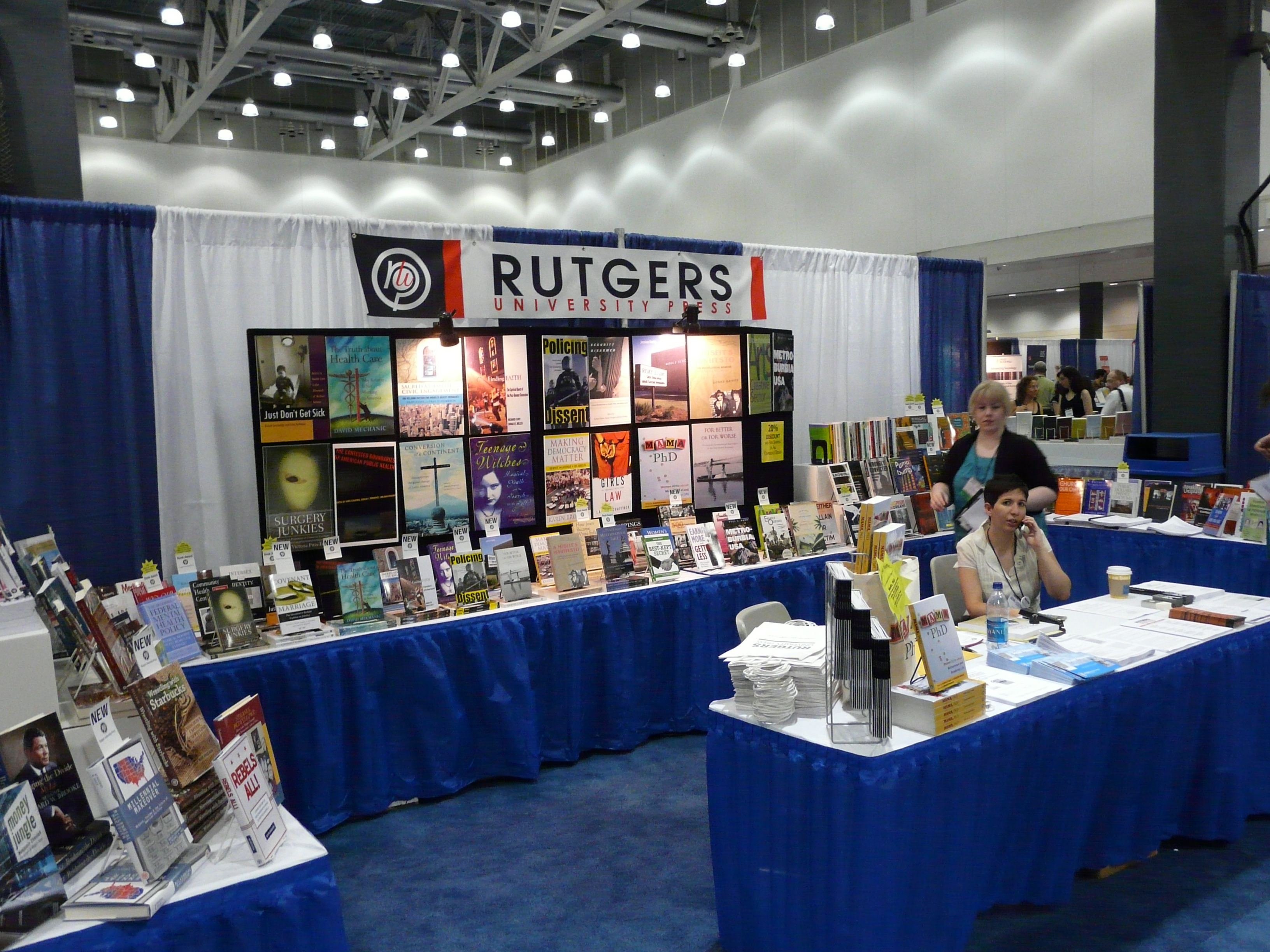 Boston. American Sociological Association conference.